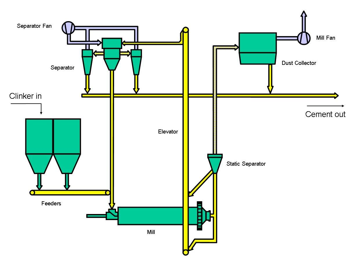 Digram of a closed circuit cement grinding system